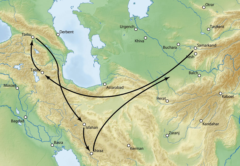 The campaign of Timur in Western Persia in 1386-1388.